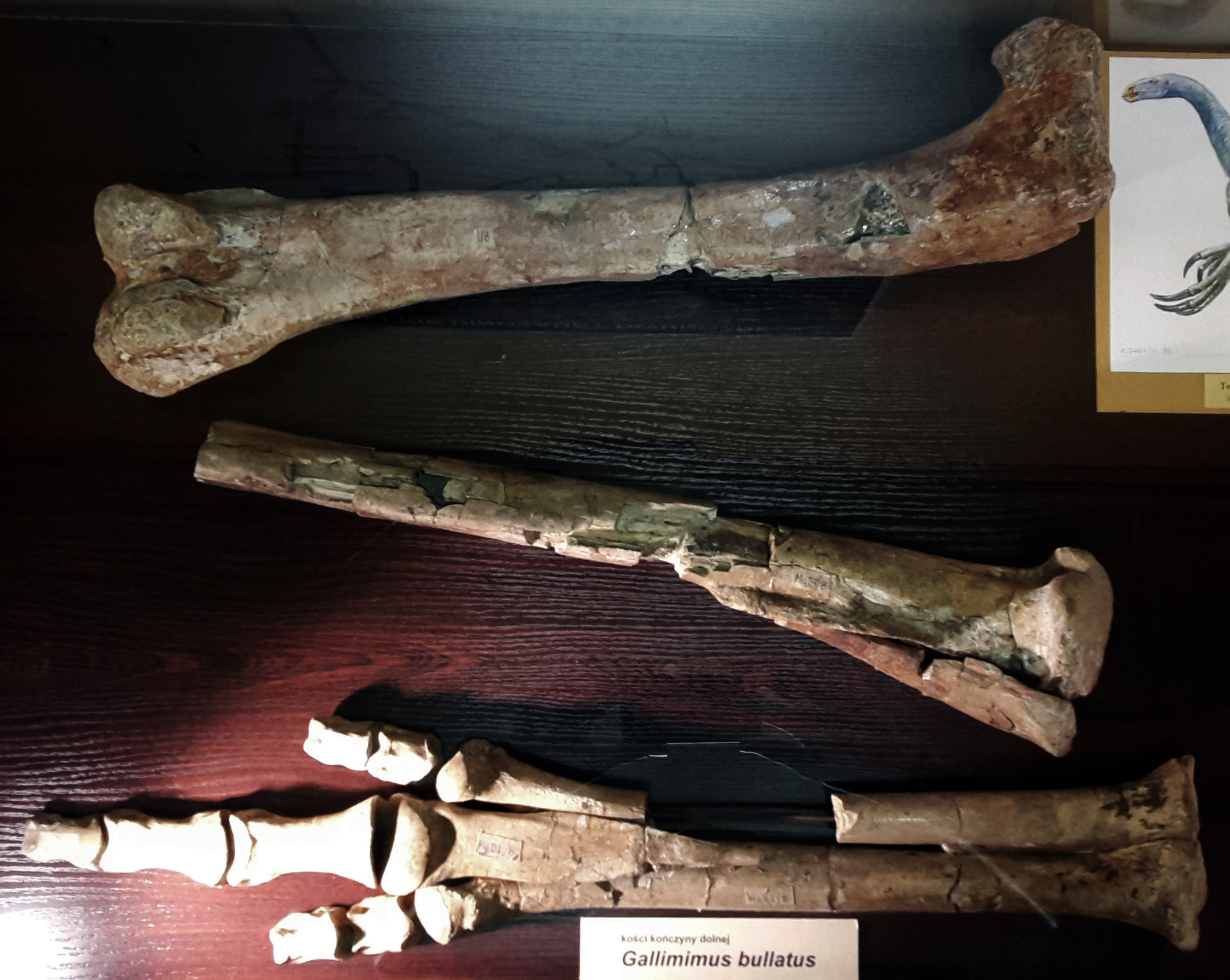 Gallimimus bullatus leg bones (specimen ZPAL MgD-I/8), Museum of Evolution of Polish Academy of Sciences, Warsaw.